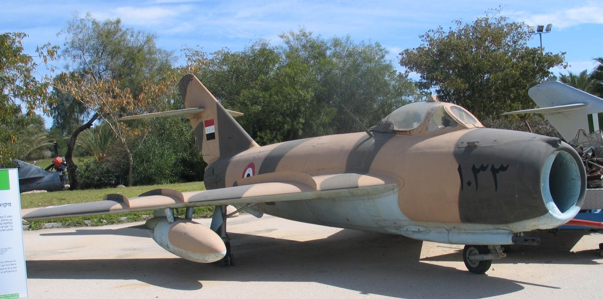 Description: MiG-17 at Muzeyon Heyl ha-Avir, Hatzerim airbase, Israel. 2006. Source: Photo by me, User:Bukvoed.